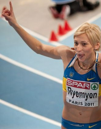 Mariya Ryemyen and Olesya Povh at the 2011 European Athletics Indoor Championships in Paris